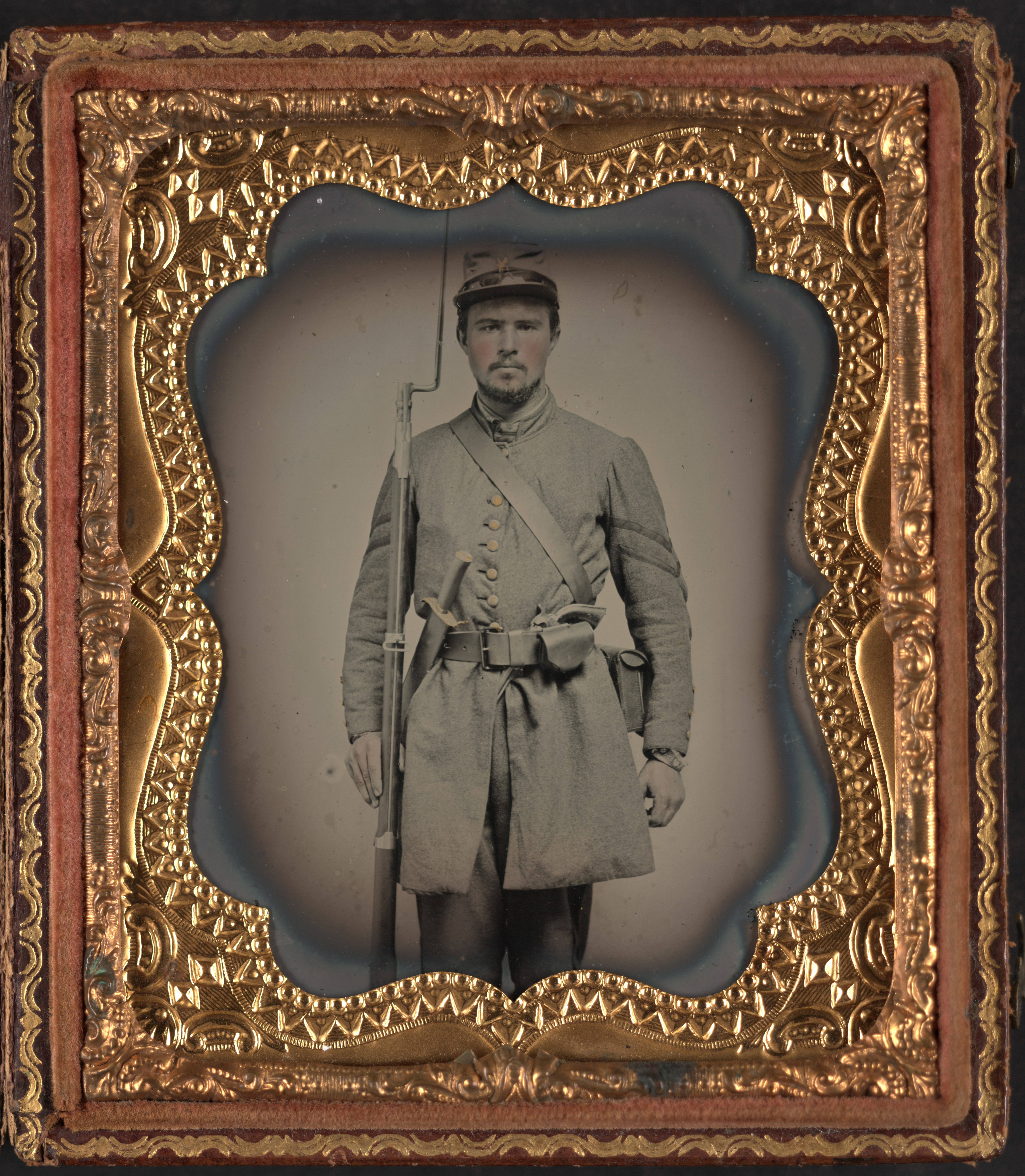 Title: Corporal C. Dorma Clarke of Co. F, 23rd Virginia Infantry Regiment in uniform with bayoneted musket and Bowie knife Abstract/medium: 1 photograph : hand-colored ambrotype ; plate 83 x 70 mm (sixth plate format), case 94 x 81 mm.